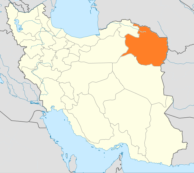 Locator map of Iran